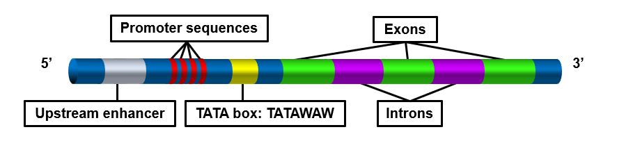 TATA box description, where W in the TATA box sequence can be either A or T